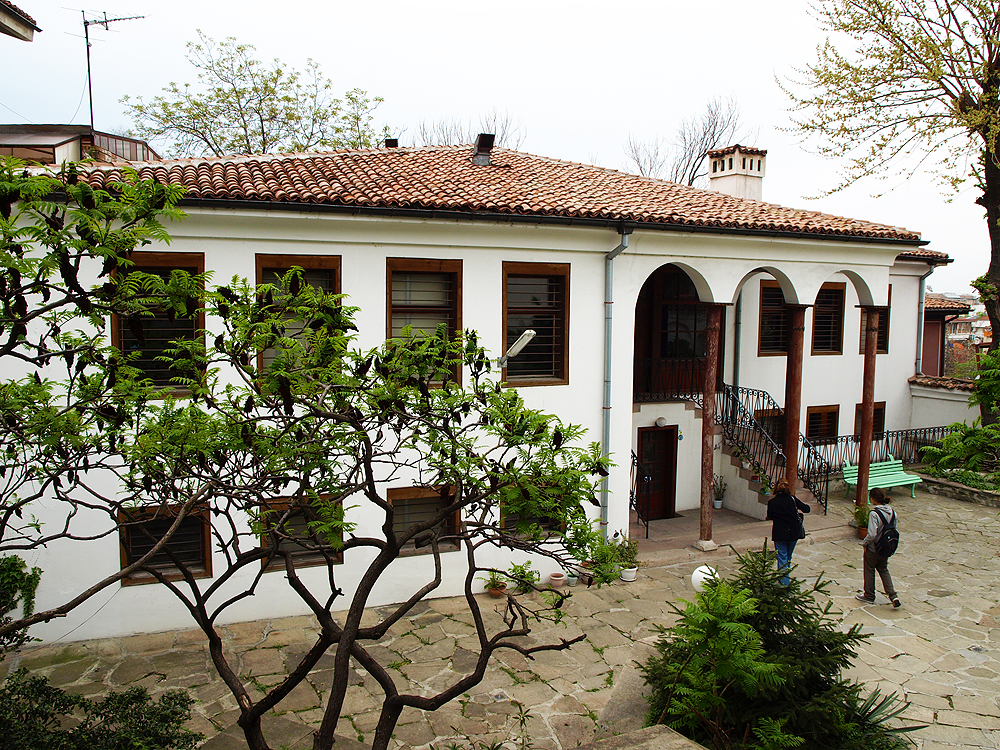 Permanent Exposition "Encho Pironkov", Plovdiv, Bulgaria